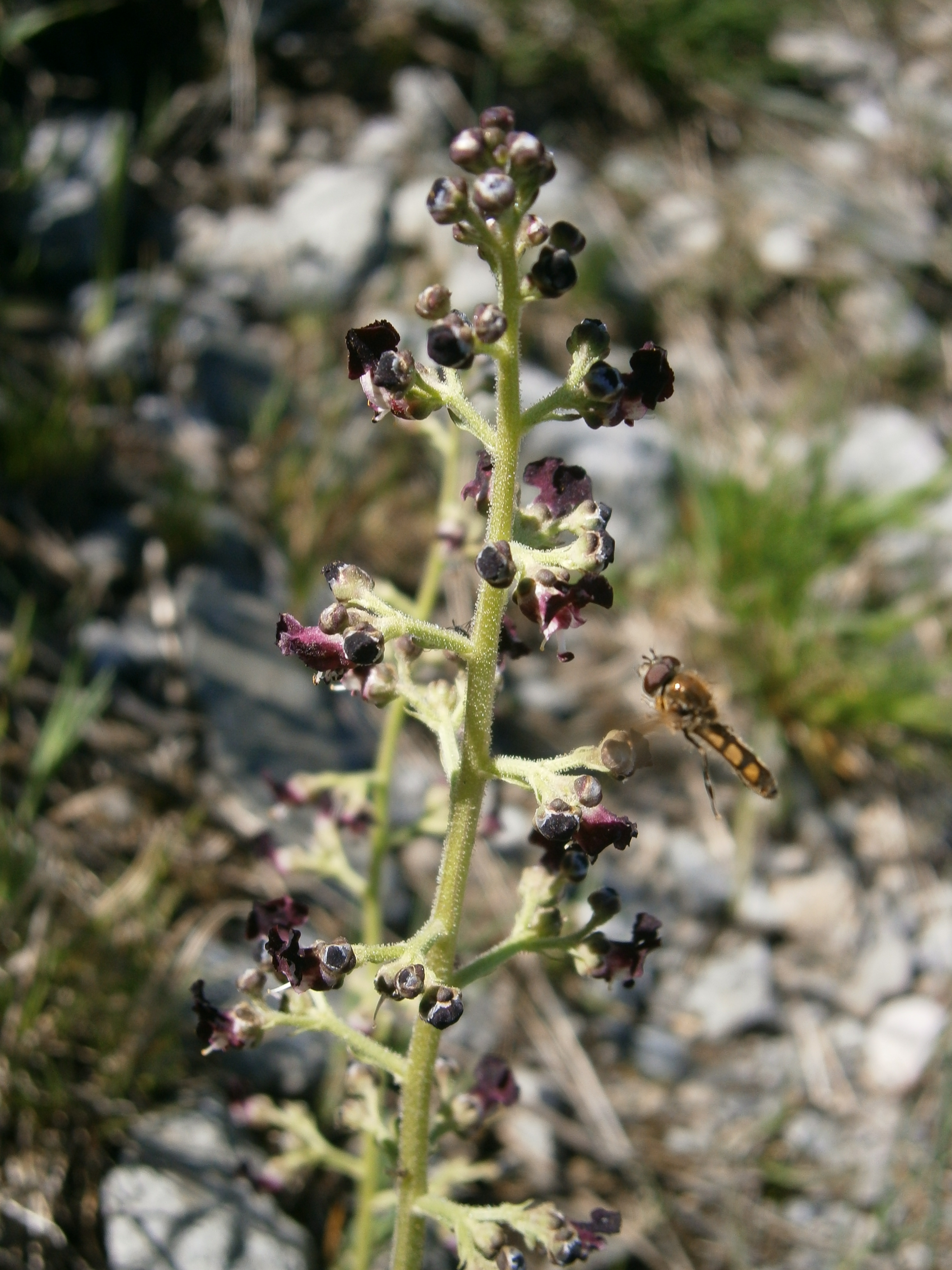 Scrophularia canina subsp. hoppii